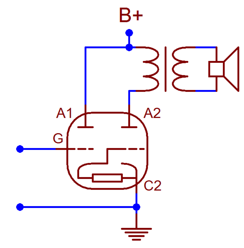 The "third generation" triple-twin vacuum tube (with built-in cathode resistor) in a SE power amp.